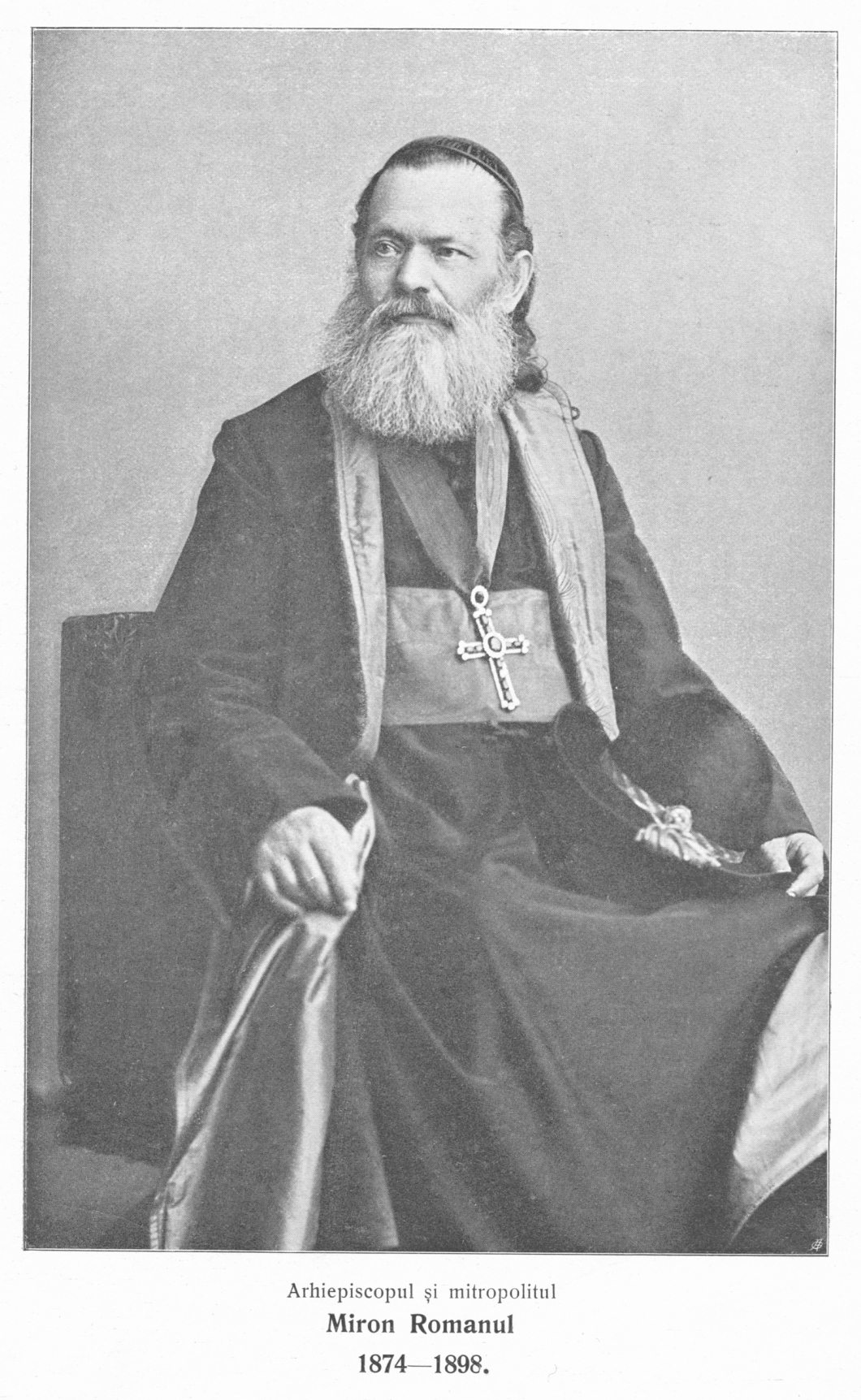 Metropolitan bishop Miron Romanul.